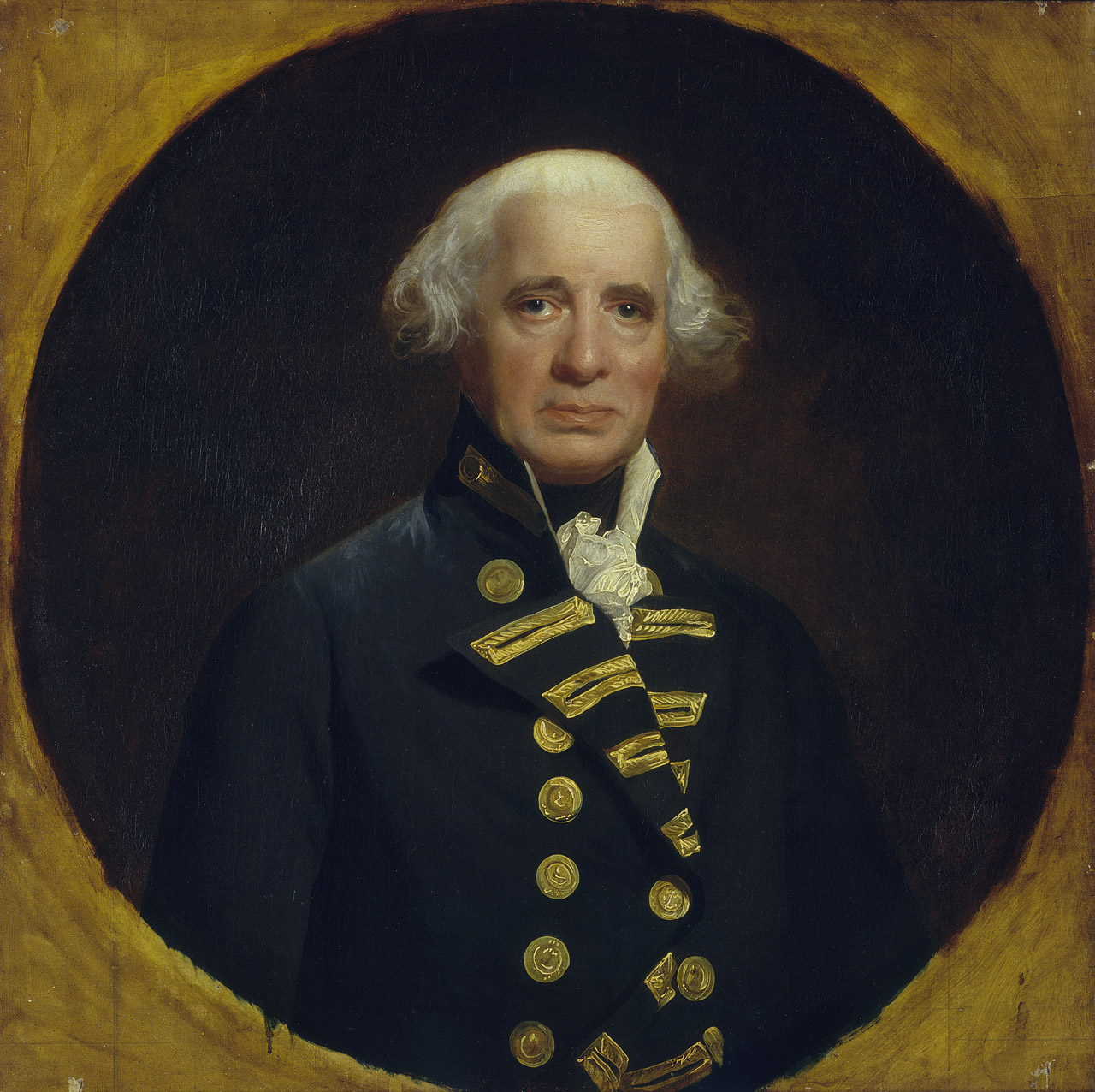 Admiral Richard Howe, 1726-99, 1st Earl Howe A half-length full-face portrait within a painted circle. The sitter wears admiral's undress uniform, 1787-95, of a blue jacket with gold braid and his own white hair. On 1 June 1794, in command of the Channel Fleet, he won the first fleet engagement of the French Revolutionary War, over 400 miles west of Ushant. The French were badly beaten with one ship sunk and six captured but the important grain convoy from America, which they had sailed to protect and the British to attack, slipped through to Brest. It was Lord Howe's last sea service. The artist painted three copies of this portrait so that each of the sitter's daughters could have one. This one is thought to have belonged to the third daughter. The prime version was painted, with a pendant pair of Admiral Samuel Barrington, to flank a panoramic painting of Howe's 'Relief of Gibraltar', 1782, all three originally being part of the presentation of Copley's vast painting of the 'Siege of Gibraltar' now in the Guildhall Art Gallery. The American-born artist was active as a portrait painter in Boston until 1774. After a year of study in Italy and following the outbreak of the American Revolution in 1775, he settled in London, where he spent the rest of his life. There he continued to paint portraits and innovatively combine portraiture with history painting. His intellectually gifted son (who had the same first names) was a lawyer and politician who served three terms as Lord Chancellor of England, and beame first Baron Lyndhurst. Admiral Richard Howe, 1726-99, 1st Earl Howe. John Singleton Copley. Scanned transparency and crop of BHC2790